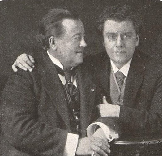 Karel and Emil Burian, Czech opera singers